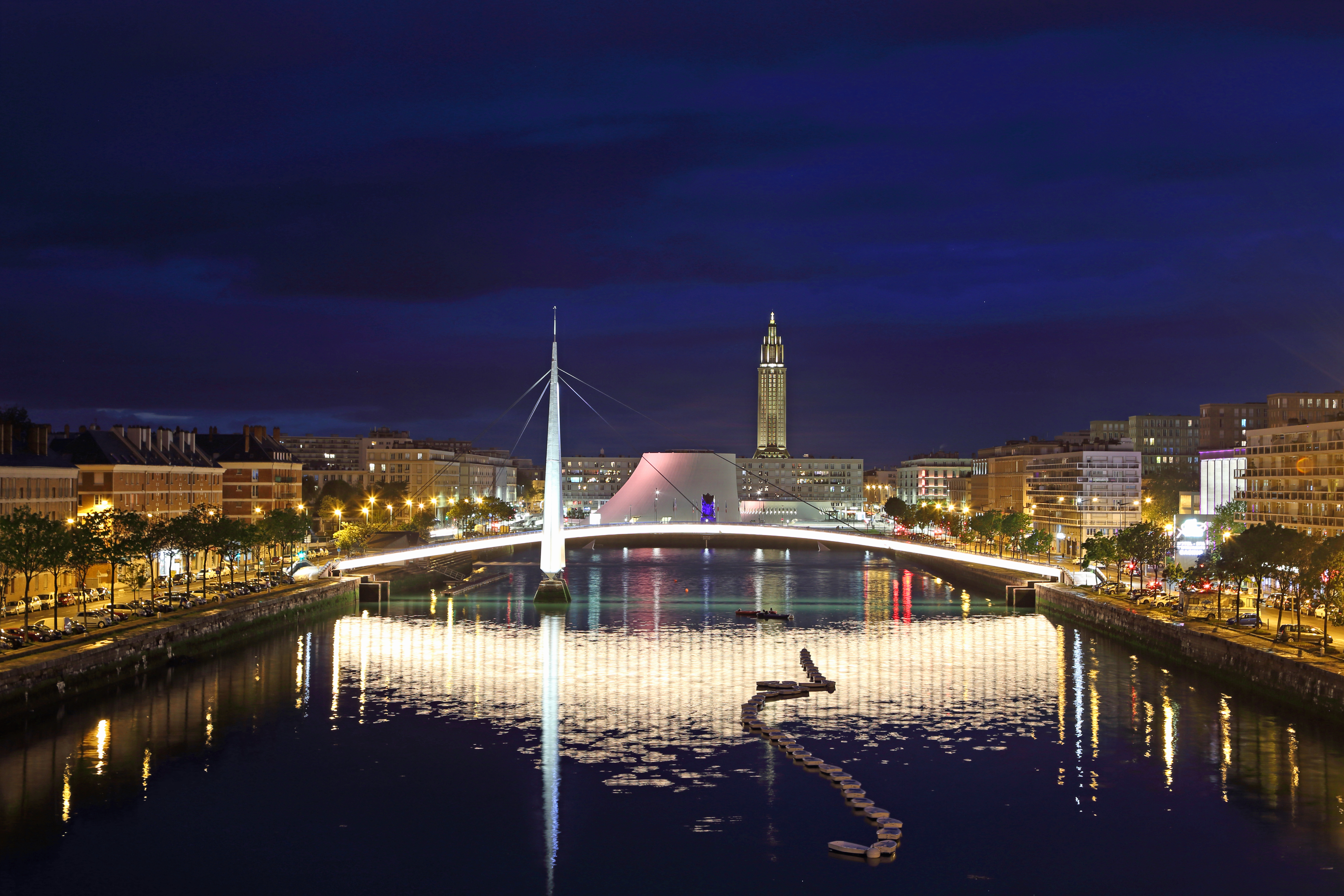 Le Havre (France): the Bassin du Commerce and the Passerelle